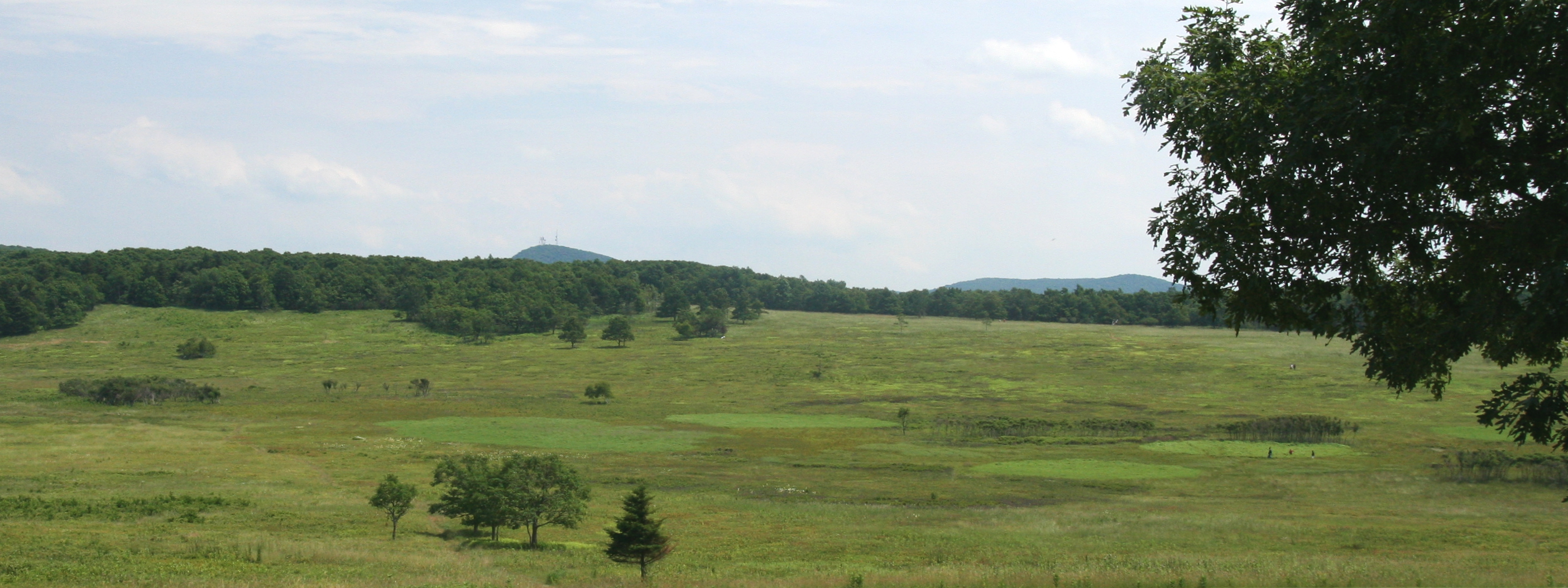 View of Big Meadows during Summer. Photo by W. Grotophorst